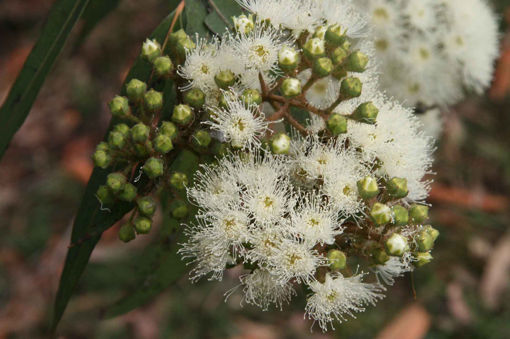 Angophora costata buds and flowers, nature strip Tebbutt St overpass, Leichhardt